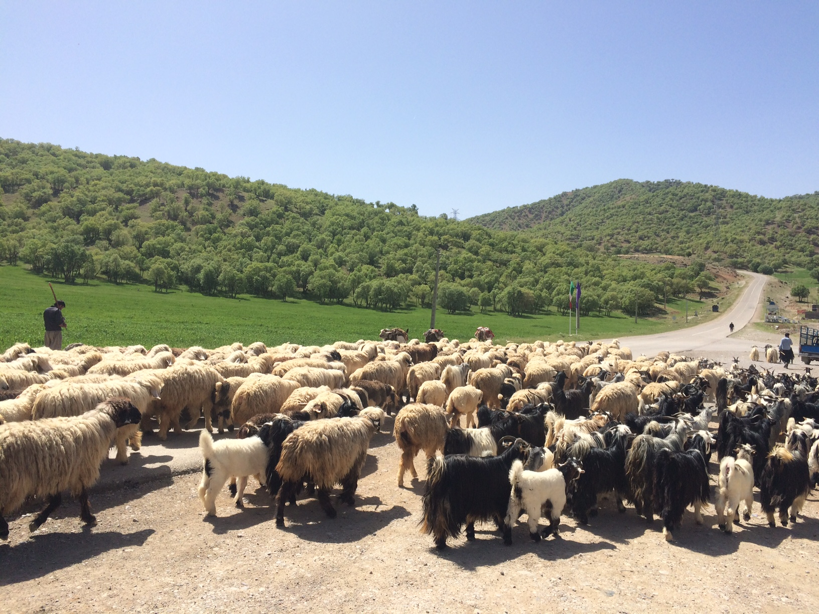 Bakhtiari nomads transhuming in Bazoft